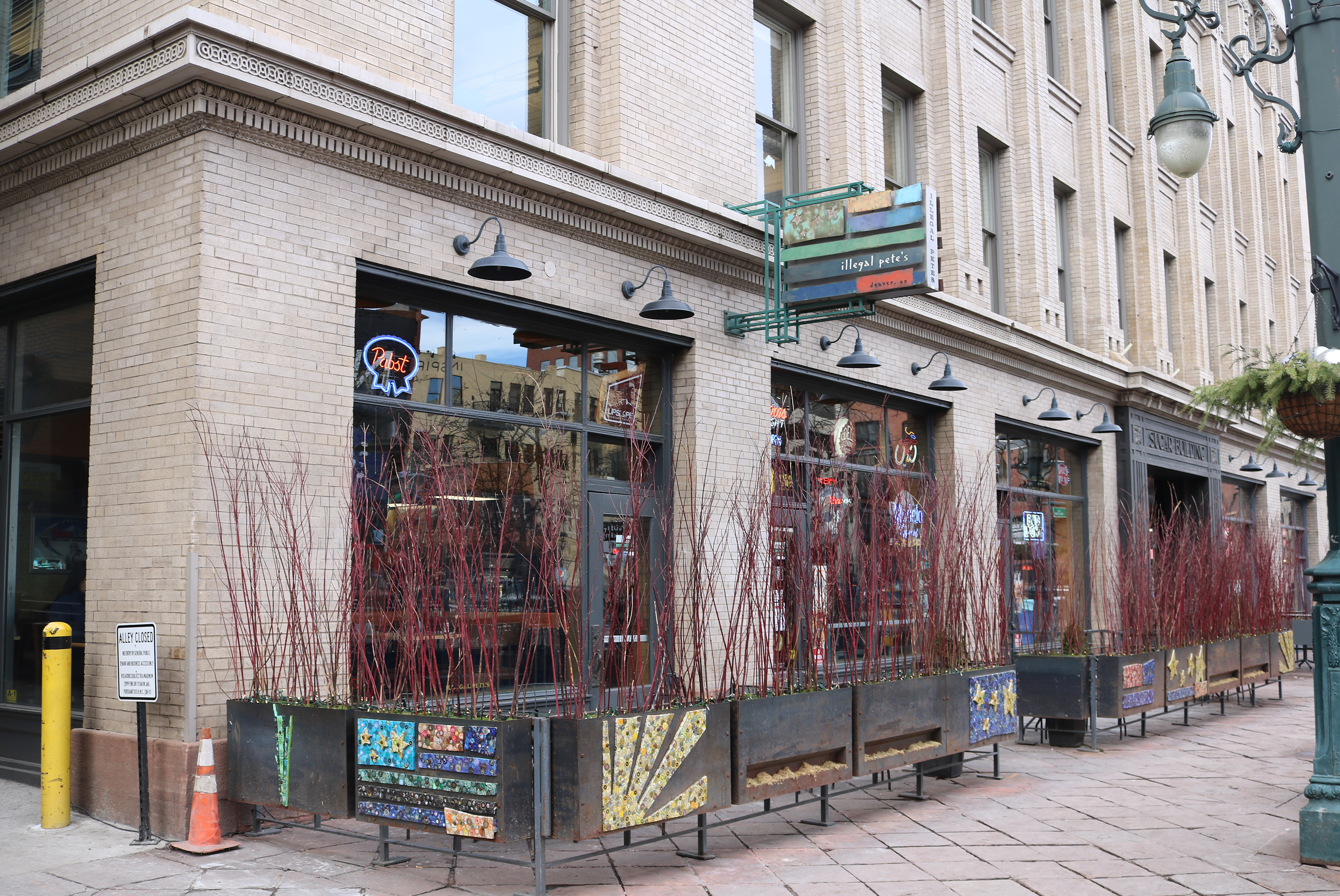 The outside of an Illegal Pete's restaurant in the Sugar Building in Denver's LoDo neighborhood. The restaurant's address is 1530 16th Street #101, Denver, Colorado 80202.